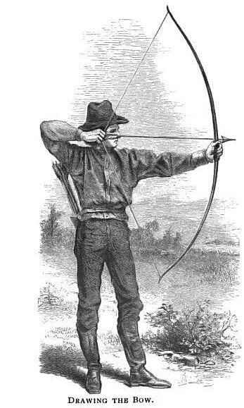 19th century knowledge archery drawing the bow